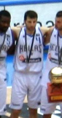 Image of Thodoris Papaloukas cropped from Image:Basketball WC 2006 Final 3.jpg